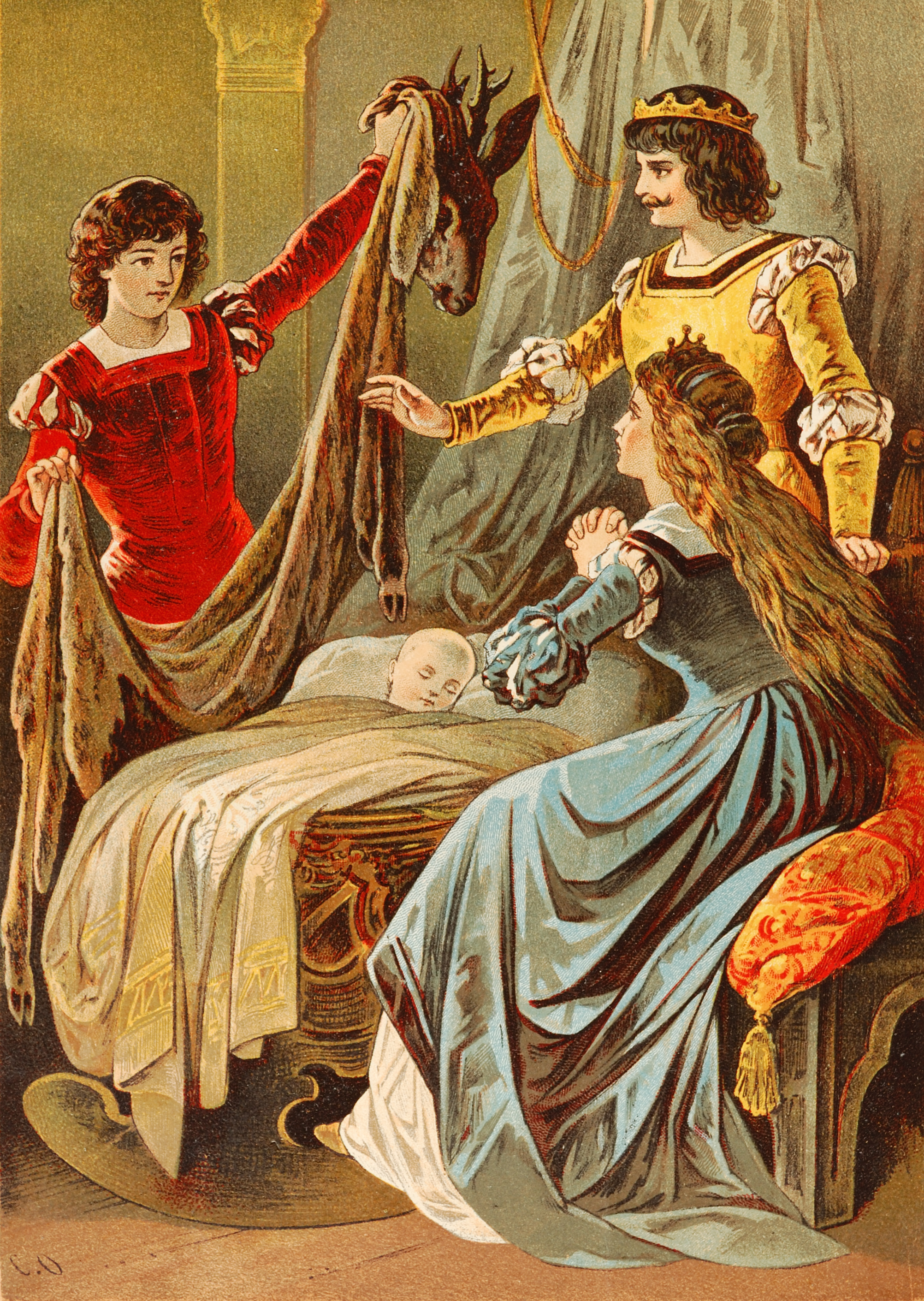 Brother and Sister, illustration by Carl Offterdinger